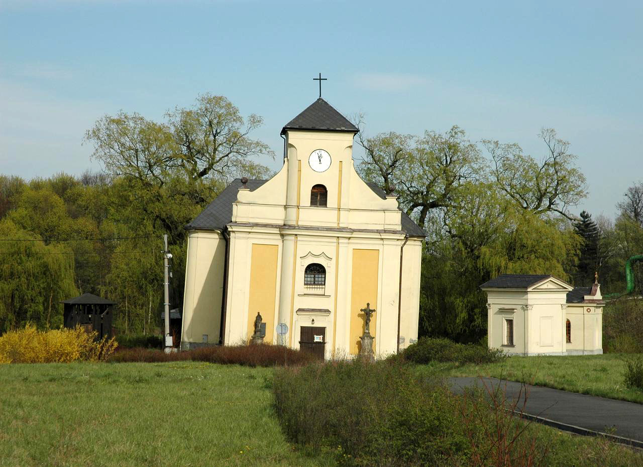 The Roman Catholic church of St. Peter of Alcantara, Karviná-Doly, Czech Republic